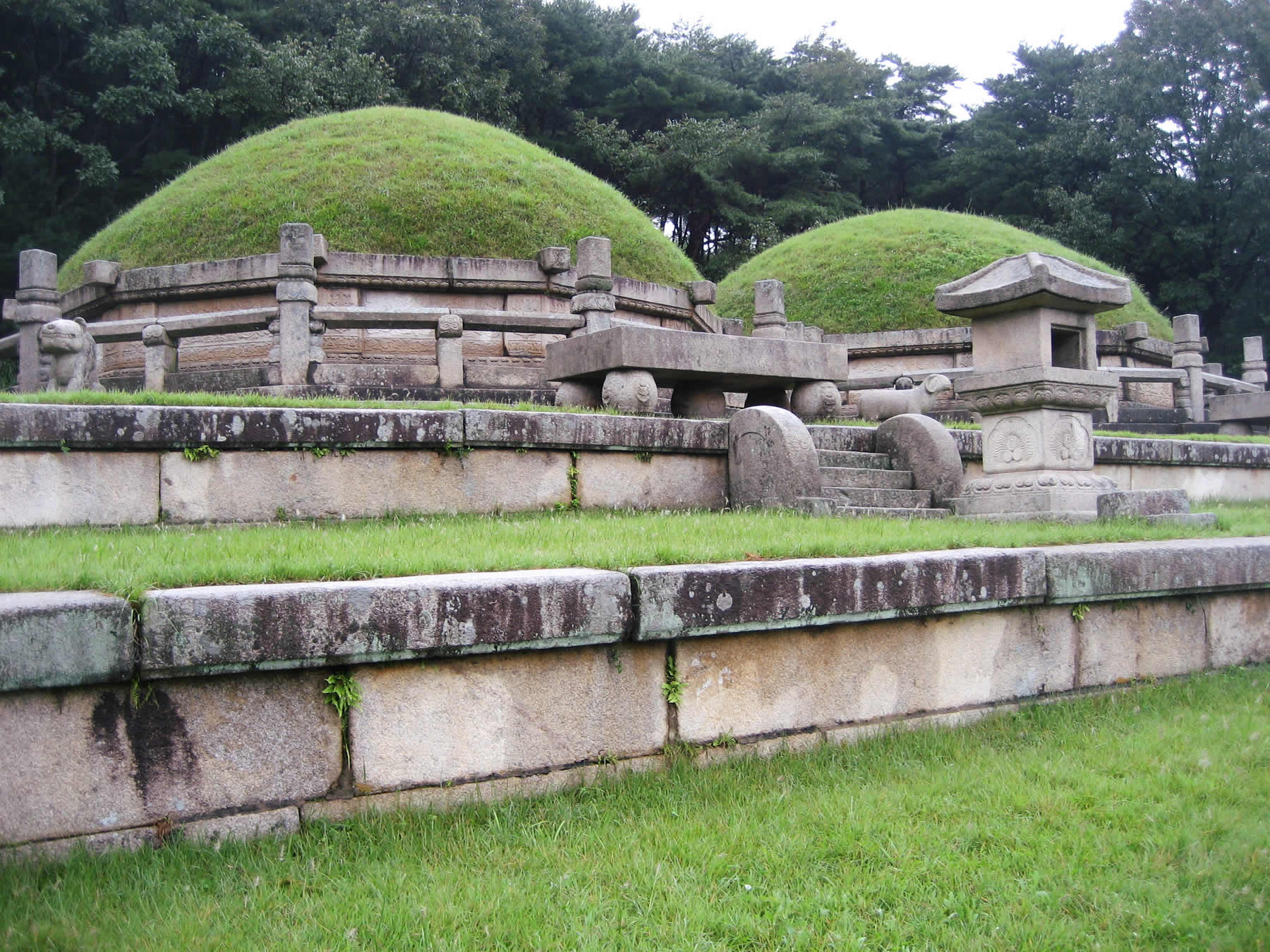 The 14th century Tomb of King Kongmin (Hyonjongrung Royal Tomb) - Goryeo Dynasty. It is one of the Royal Tombs of the Koryo (Goryeo) Dynasty. Located near Kaesong, DPRK-North Korea.